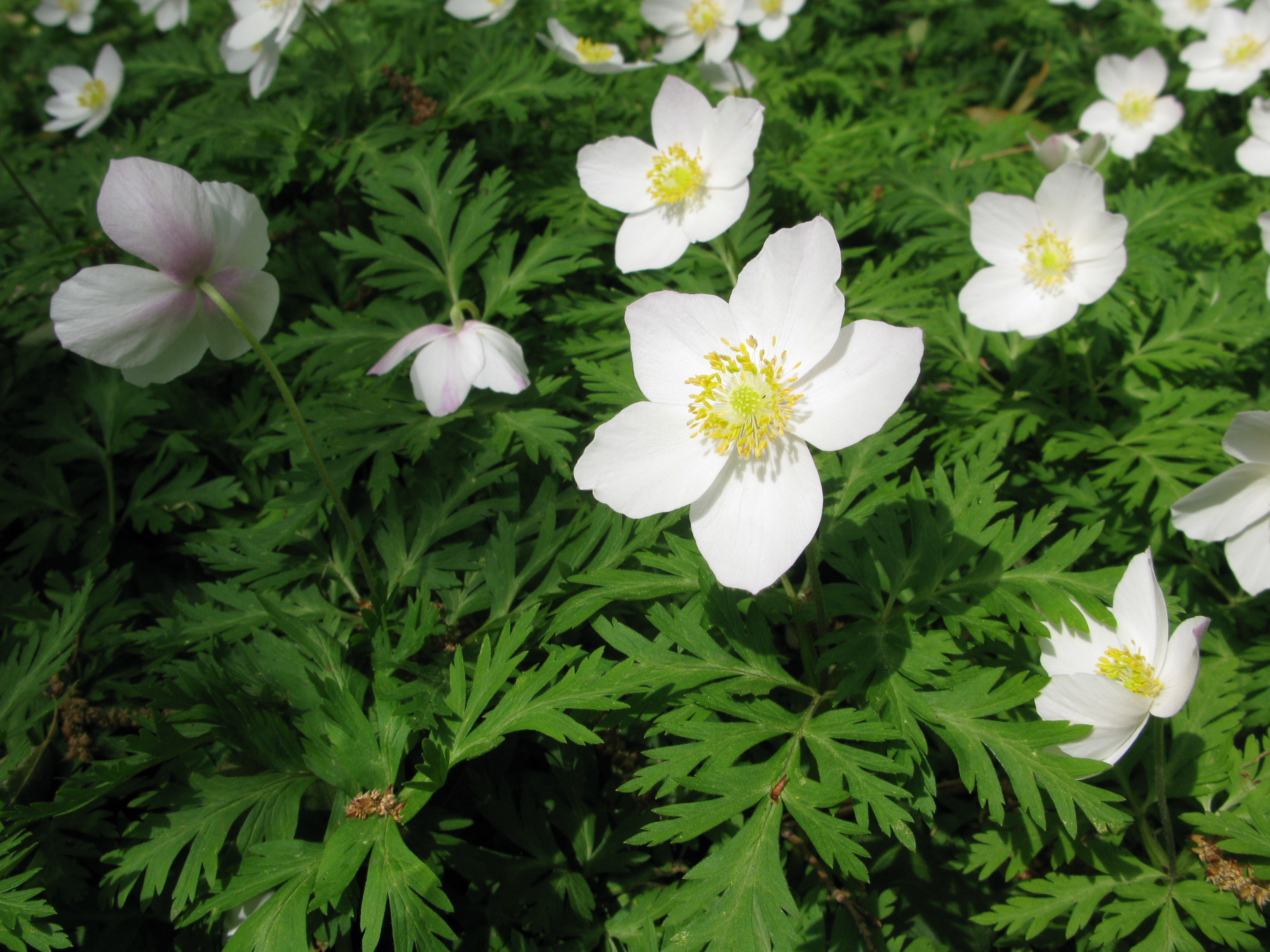 Anemone nikoensis, Institute of Nature Study, Tokyo, Japan